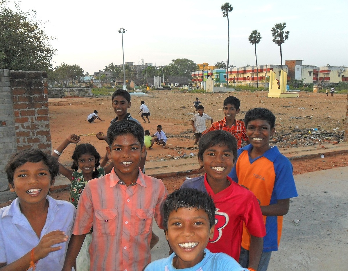 Children, Puducherry, Tamil Nadu, India